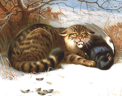 Painting of a wildcat